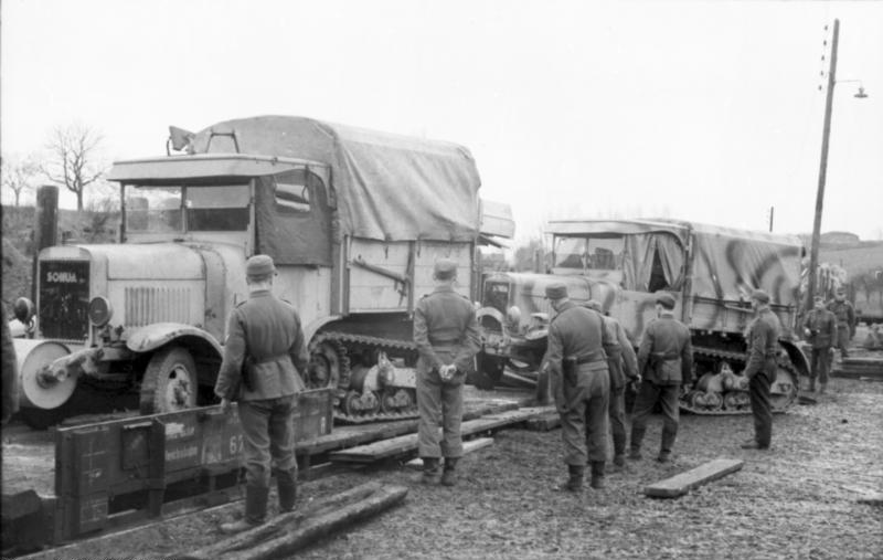 French SOMUA MCG artillery tractors in the German service (they were not designated "Maultier" nor Sd.Kfz. 3)